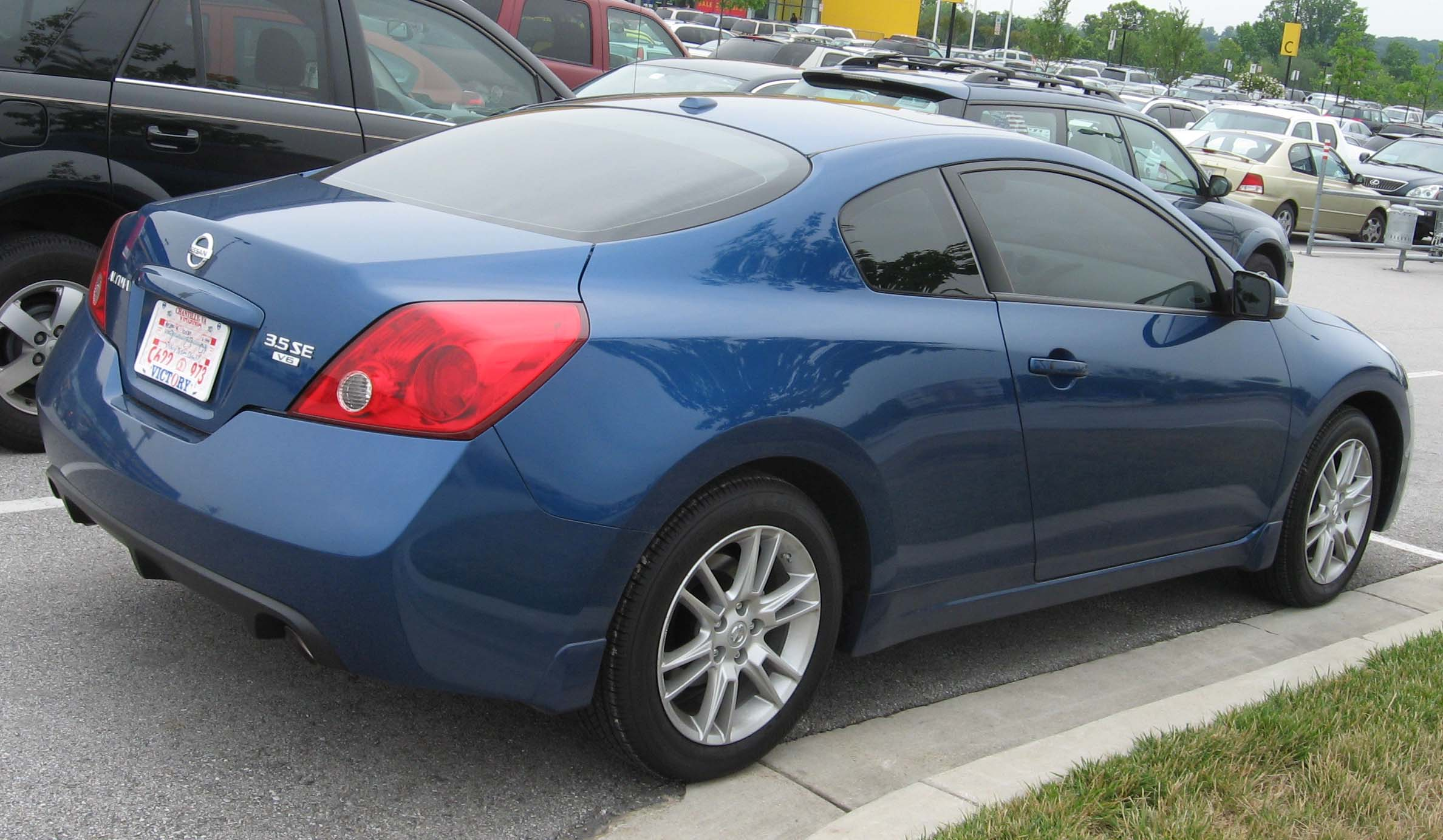 2008 Nissan Altima photographed in USA.